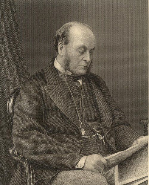 Portrait of Gathorne Hardy (d. 1906) Image cropped, rotated, and scaled using The GIMP.